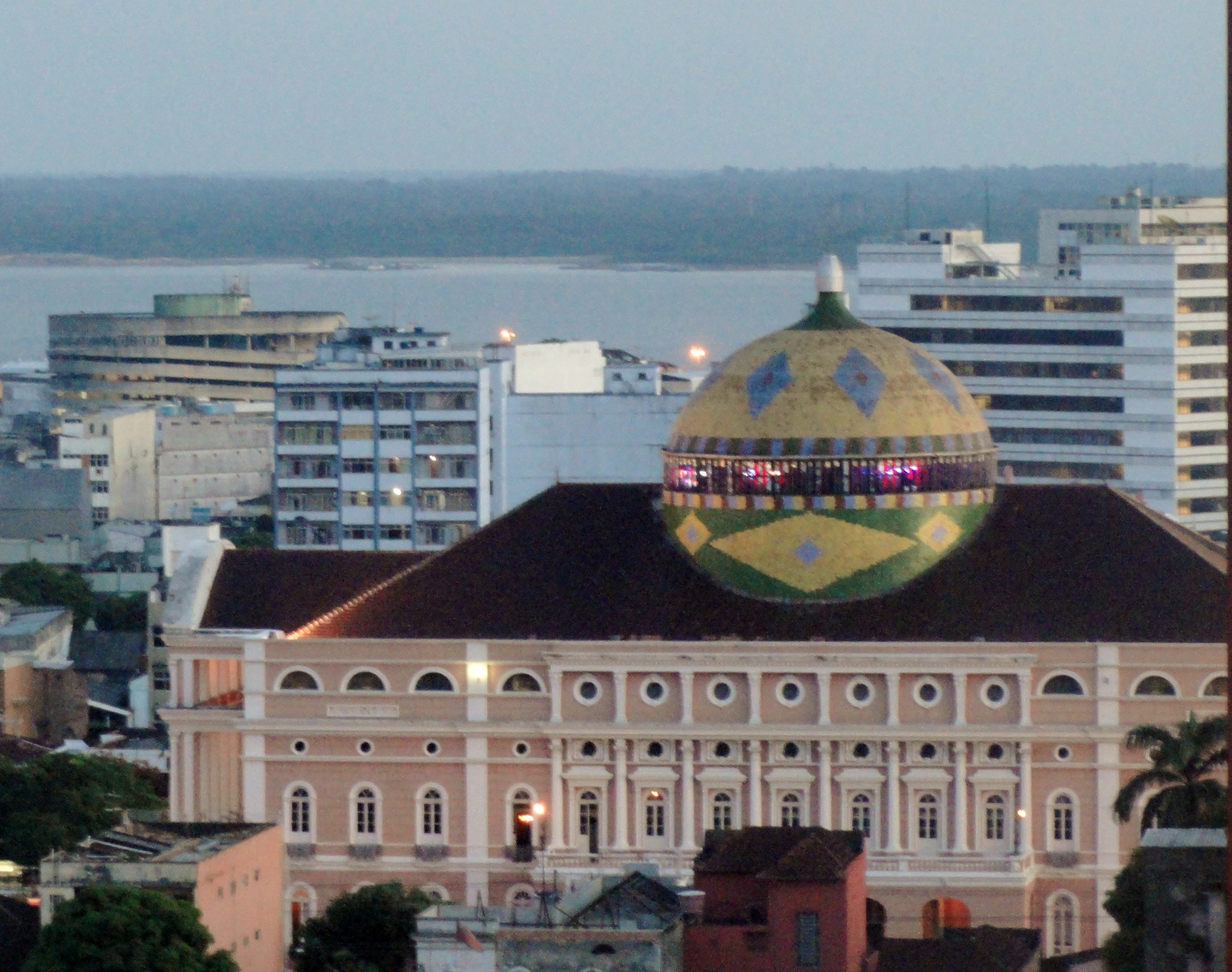 The Amazon Theater (O Teatro Amazonas) in Manaus, Brazil.